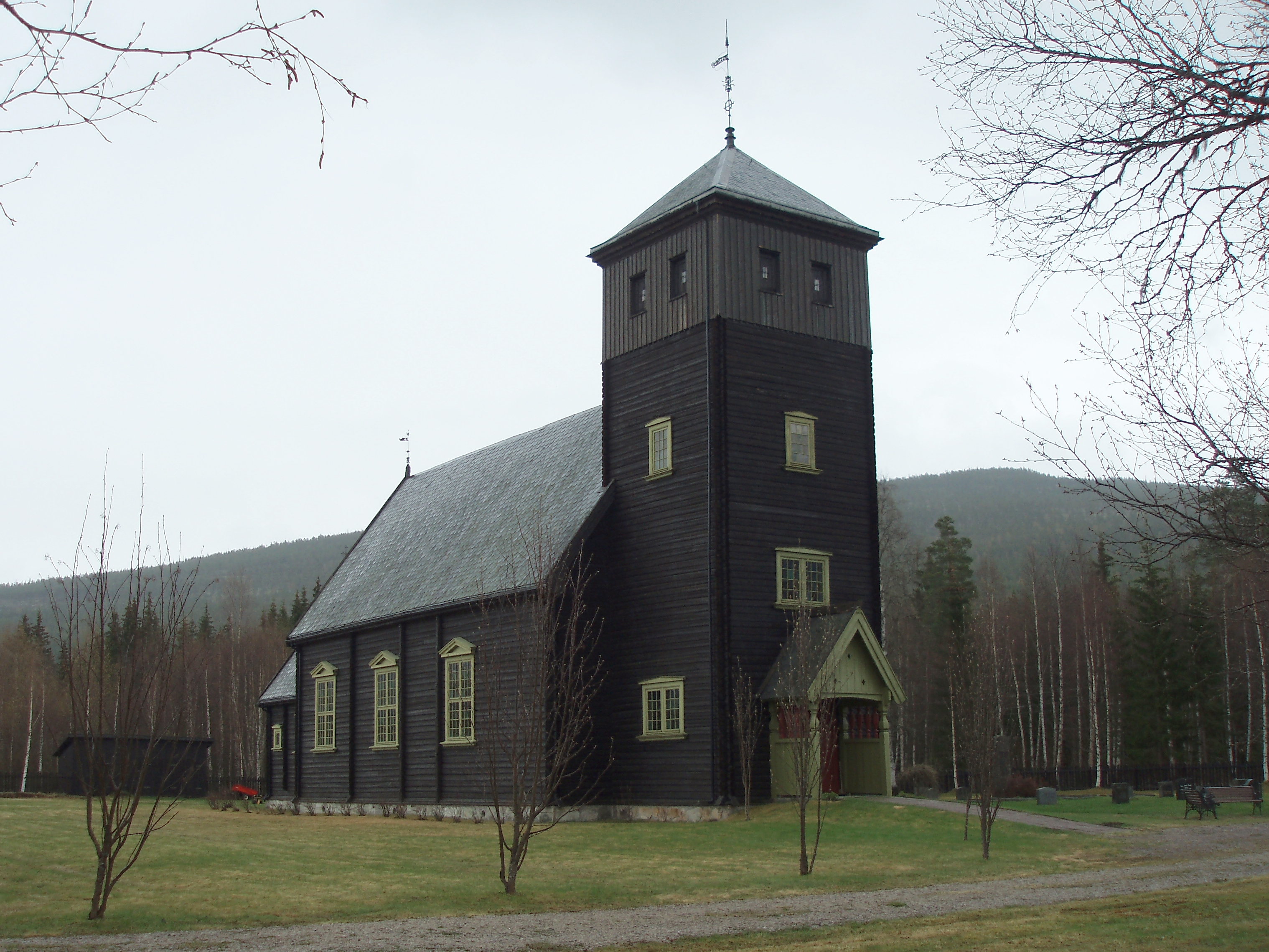 Hanestad Chapel in Rendalen municipality in Hedmark county in Norway.